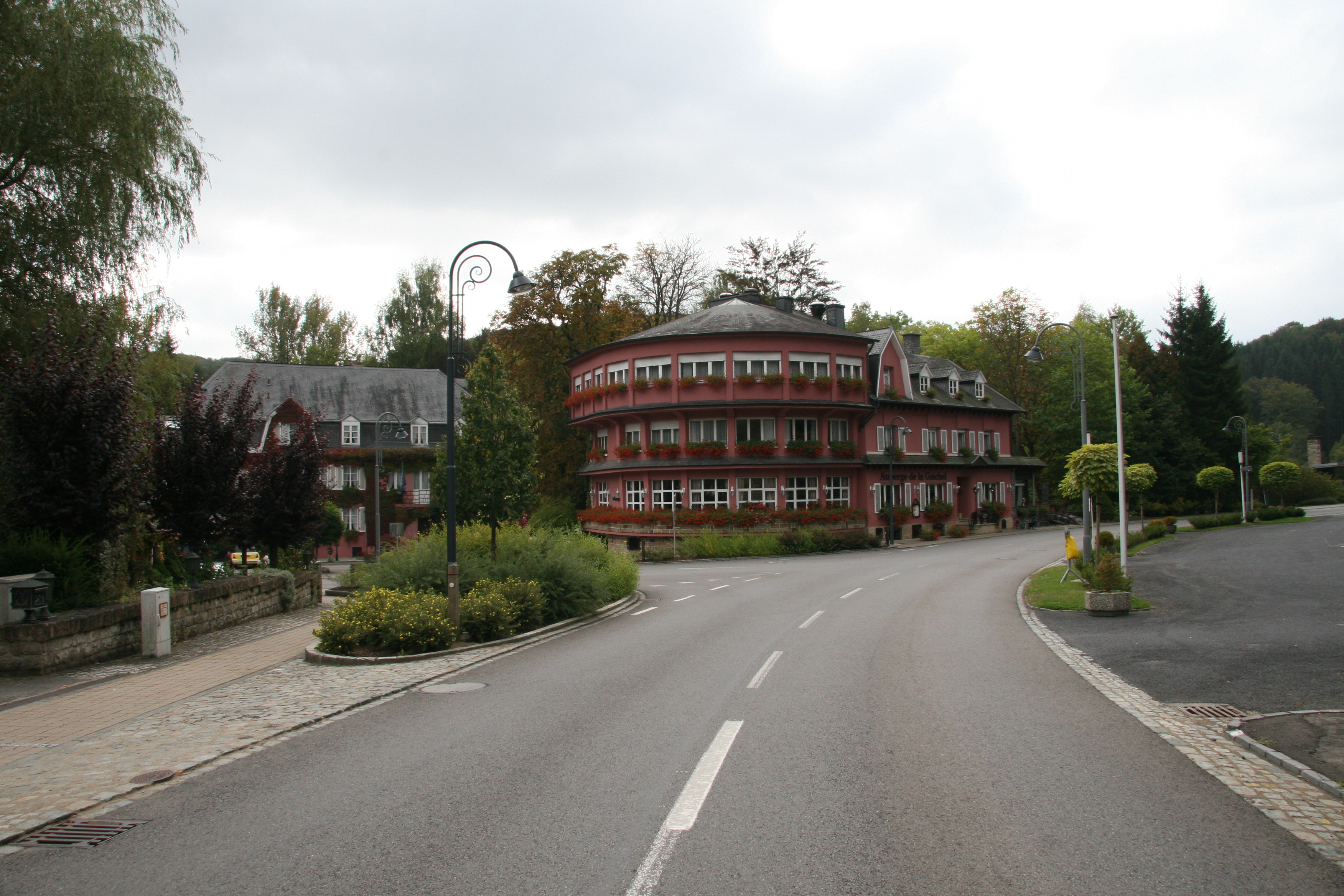 Gaichel, small locality in the municipality of Hobscheid, Luxembourg, on the border to Belgium